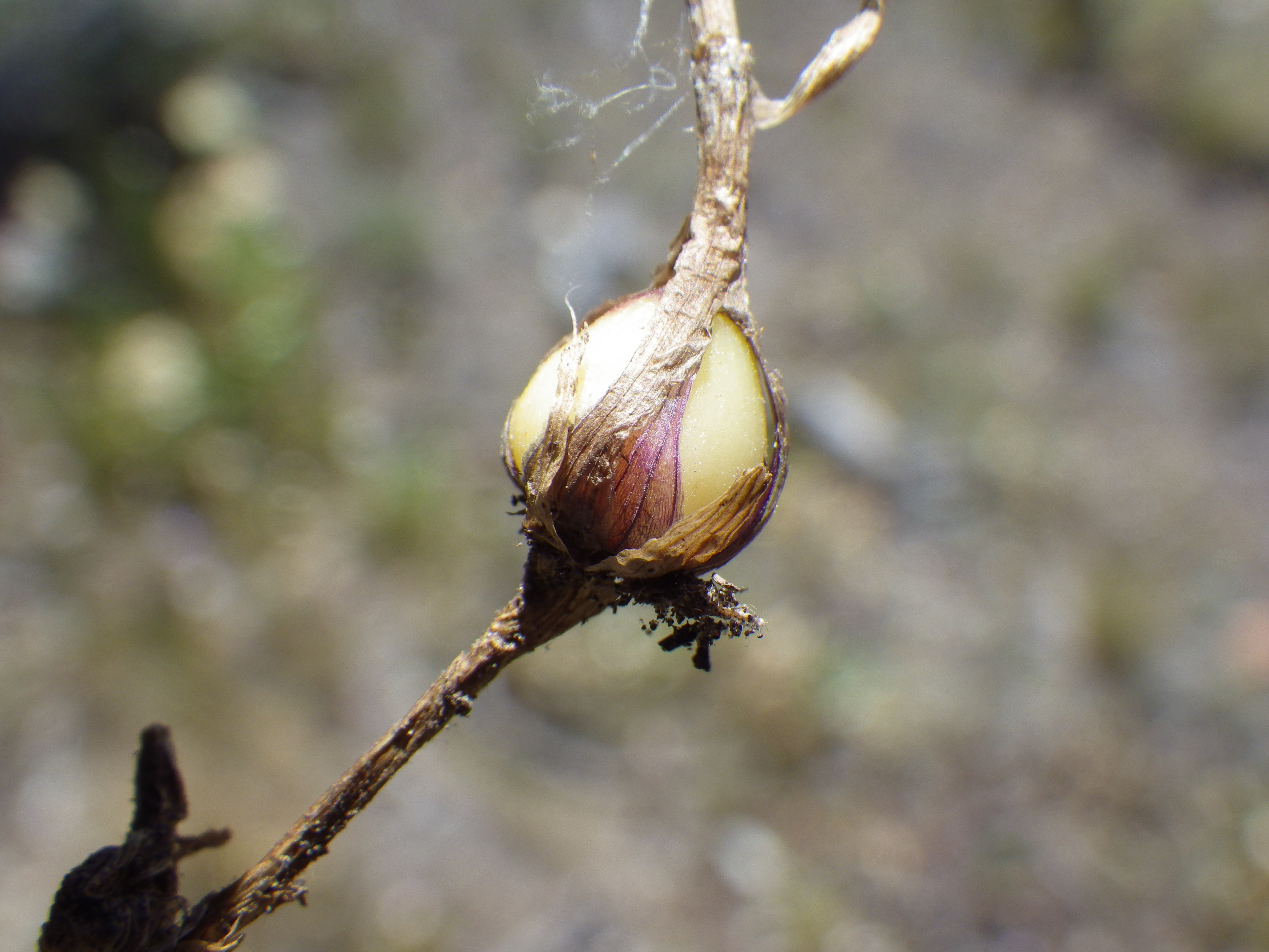 A signature of the sagebrush steppe in the Grand Teton National Park is the abundance of the genus Melica, including Melica bulbosa and Melica spectabilis. The corm or onion-like stem base is characteristic of most Melica species.